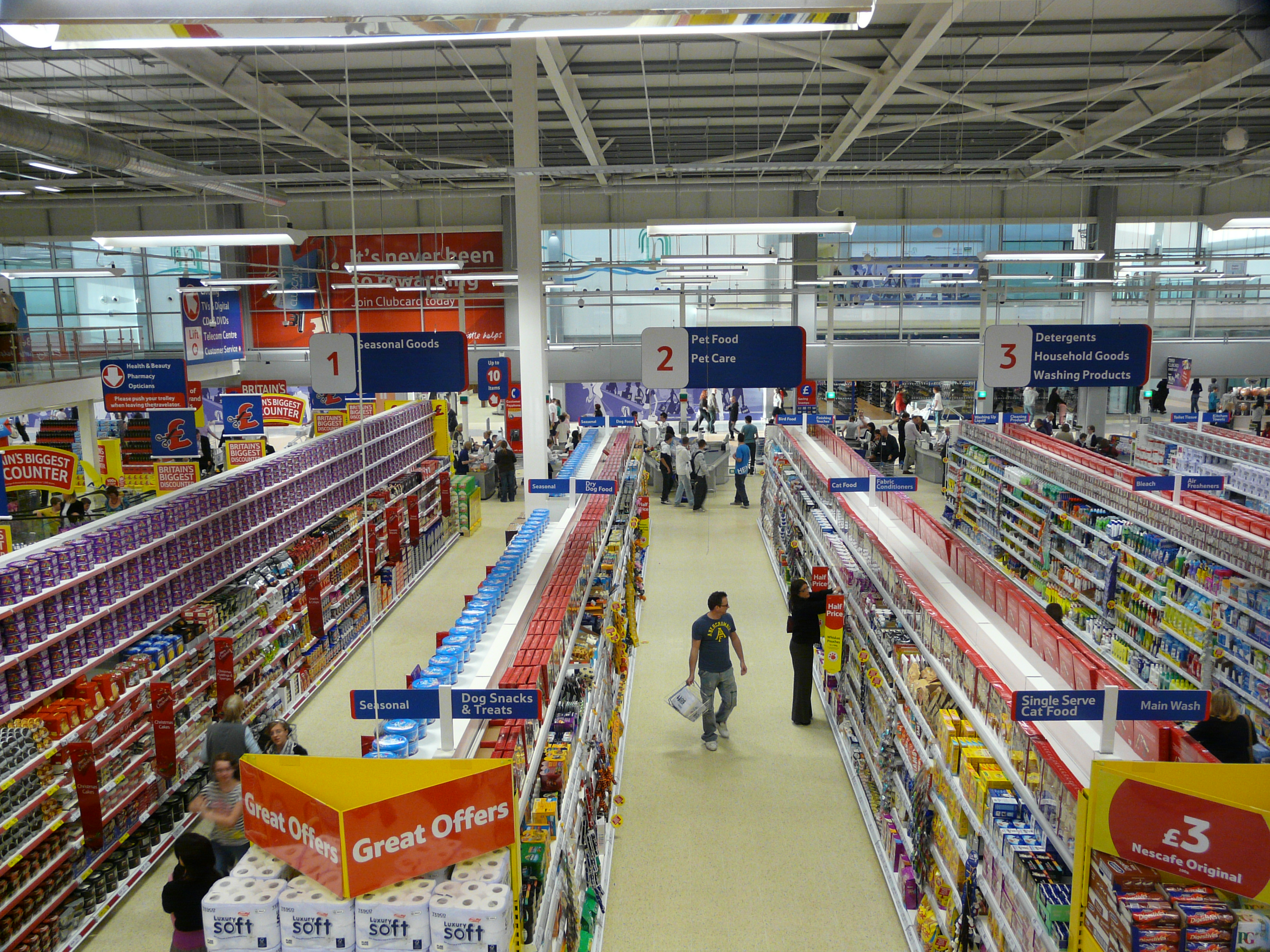 Bradley Stoke Tesco on opening day.